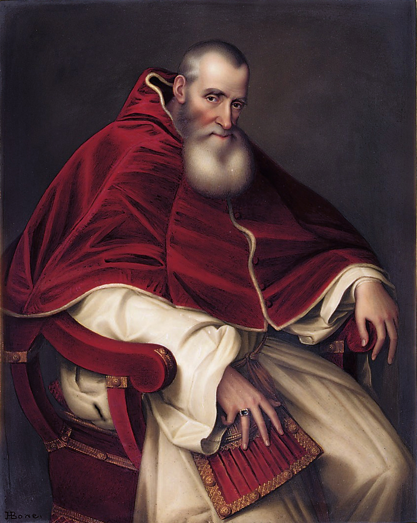 Alessandro Farnese (1468-1549), Pope Paul III (1534-1549), in papal robes signed 'HBone' (lower left); inscribed in full on the counter-enamel and dated 'Pope Paul the third London May 1810 Painted by Henry Bone ARA. Enamel Painter in Ordinary to His Majesty and Enamel Painter to His R.H. the Prince of Wales after Titian' enamel on copper 198 x 156 mm.